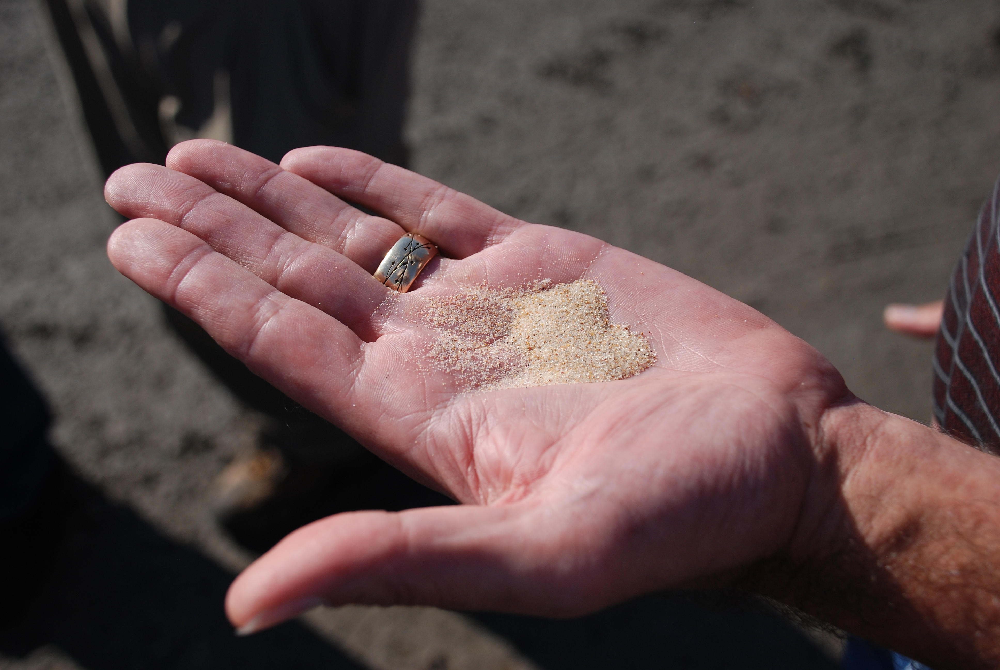 "Fine-grained silica sand is mixed with chemicals and water before being pumped into rock formations to prevent the newly created artificial fractures from closing after hydraulic fracturing is completed. Location: AR, USA; Date Taken: 2012; Photographer: Bill Cunningham, USGS". See Hydraulic fracturing